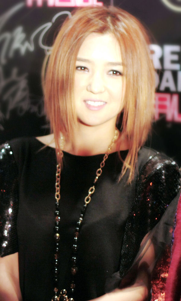 He Jie (何洁)